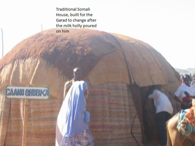 Traditional Somali House,built (The Garad to change his cloth after the holly milk poured on him) omfor the coronation of Garad jama Garad Ali at Geedoqarsay valley near Lasanod city, where he is crowned for the 24Th Garad of Dhulbahante.